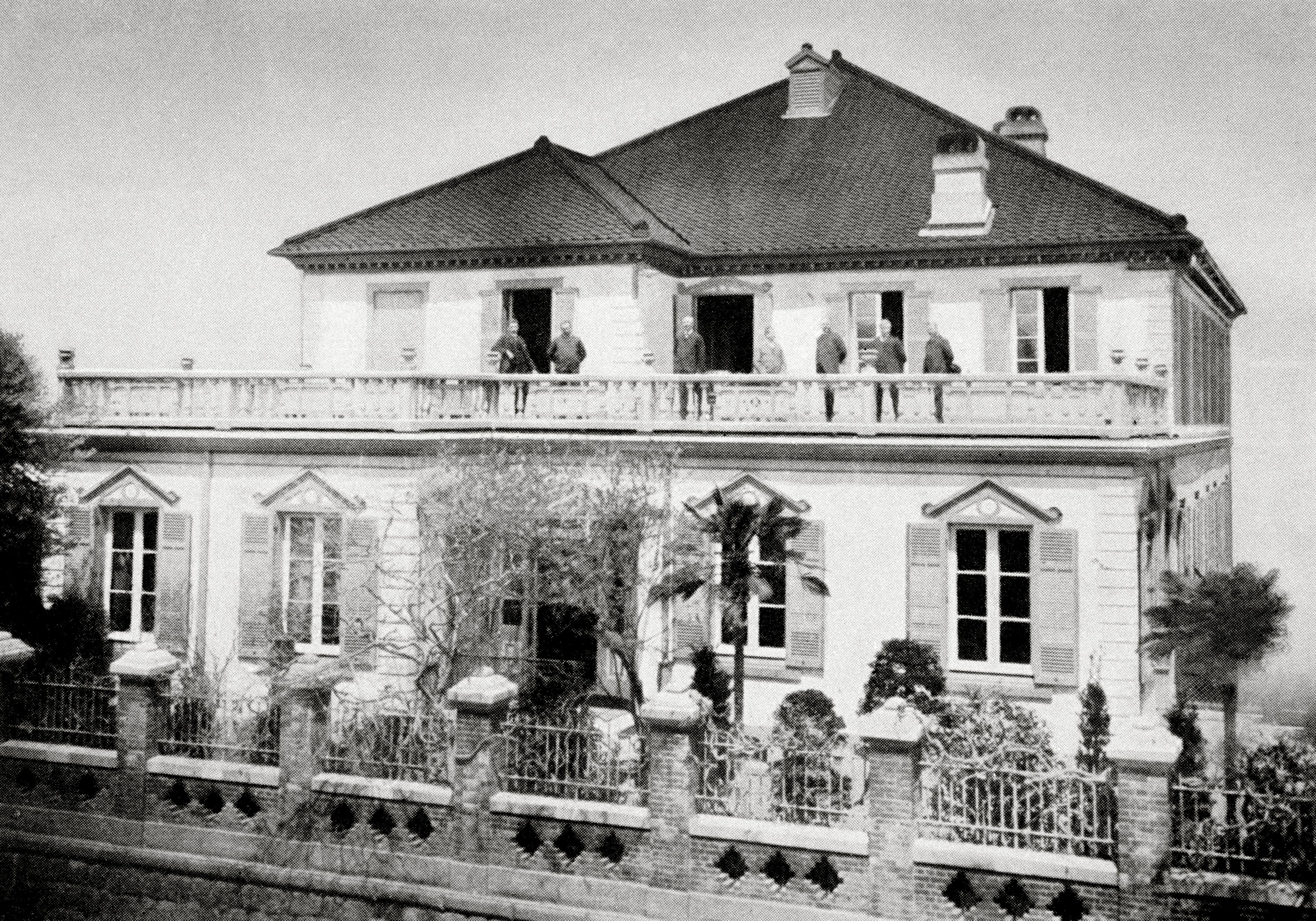 DKSH (DiethelmKellerSiberHegner) Japan's company seat in Yokohama in 1885.